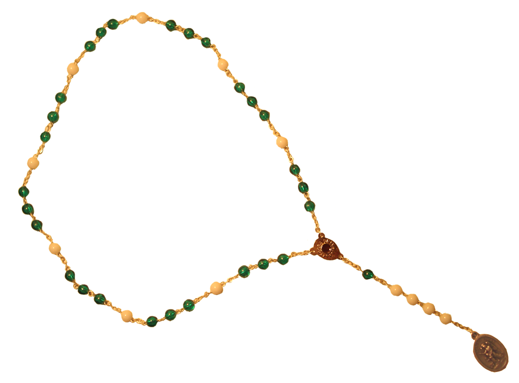 Chaplet of Saint Michael